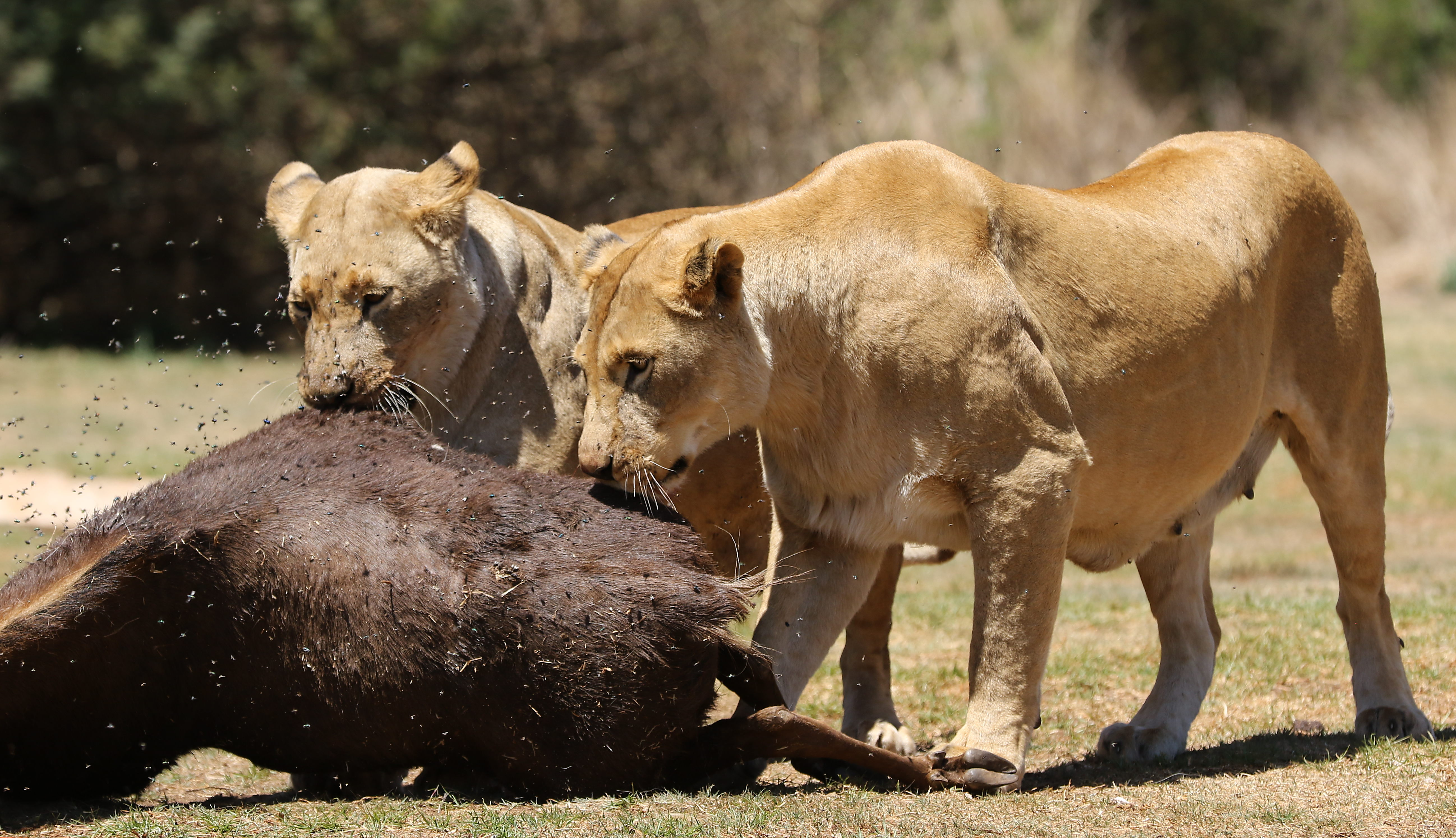 African lion, Panthera leo feeding at Krugersdorp Game Park, South Africa